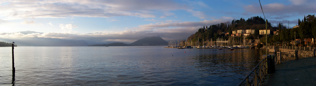 Harbour